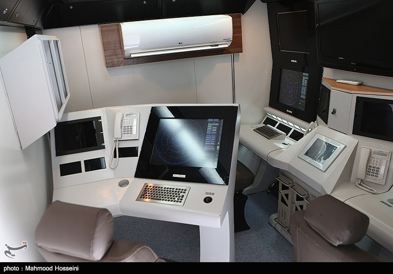 Interior detail of Arash-2 radar station unit at an unveiling ceremony hosted by the Islamic Republic of Iran Air Defense Force in Tehran in 2014.